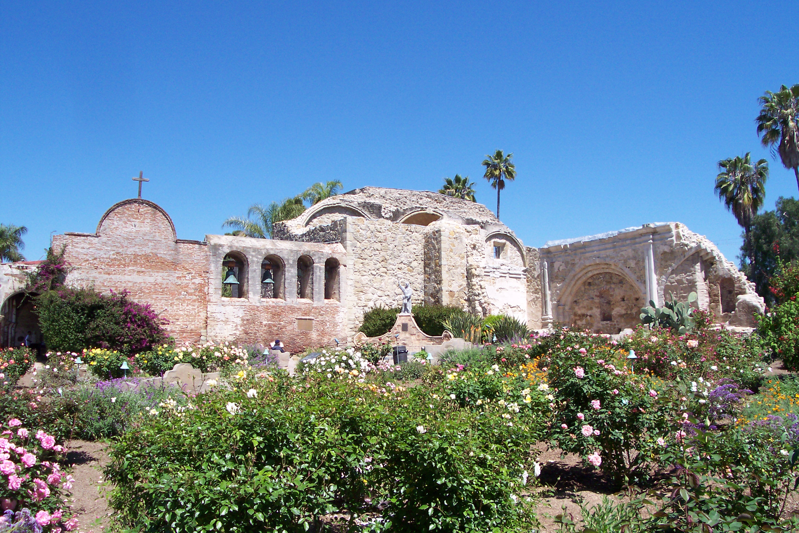 Mission San Juan Capistrano, April 2005. Photograph by Robert A. Estremo, copyright 2005.